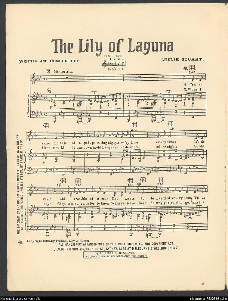 Sheet music for "Lily of Laguna".